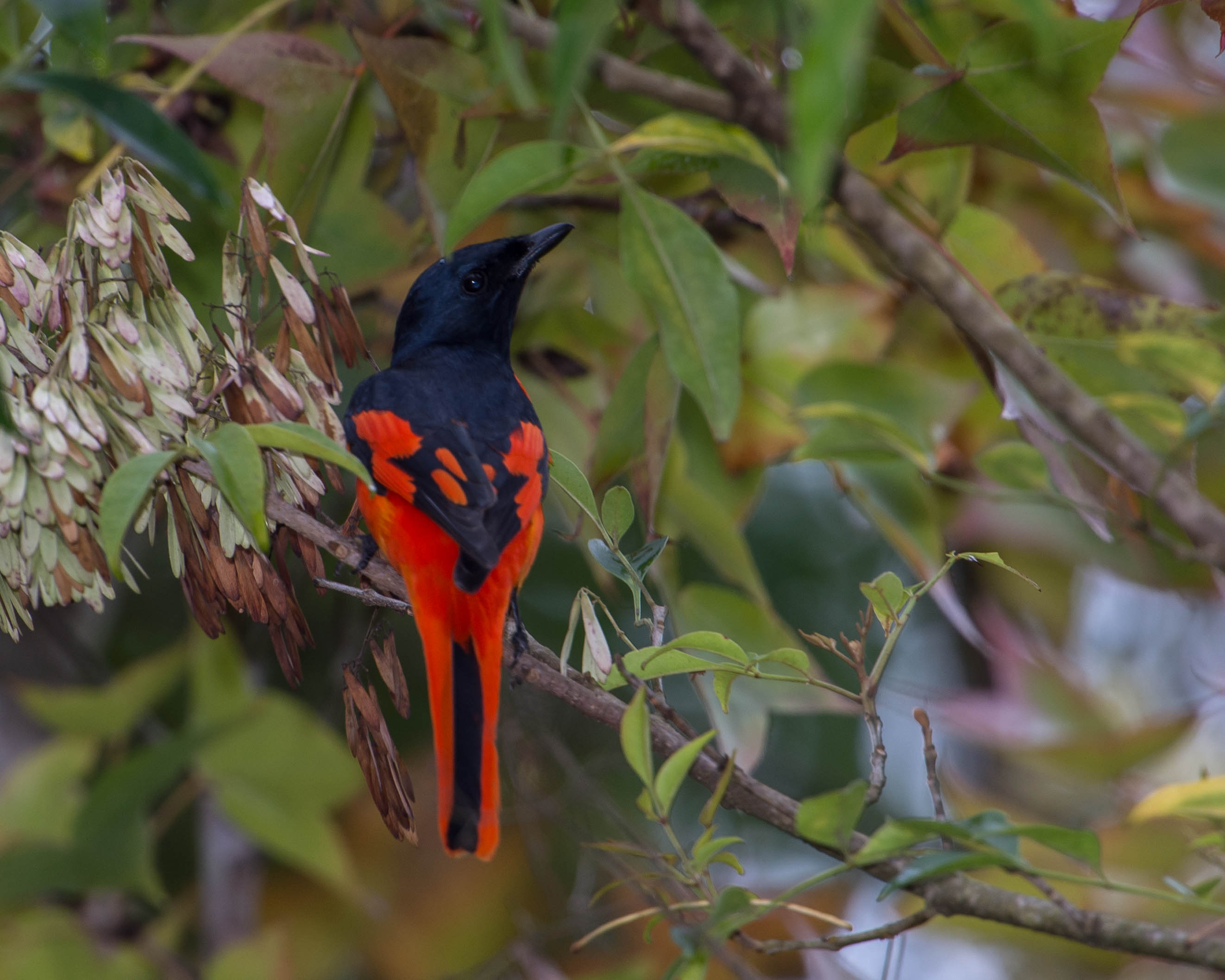 Scarlet Minivet (Pericrocotus speciosus) at Doi Inthanon Royal Project, Doi Inthanon, Chiang Mai, Thailand